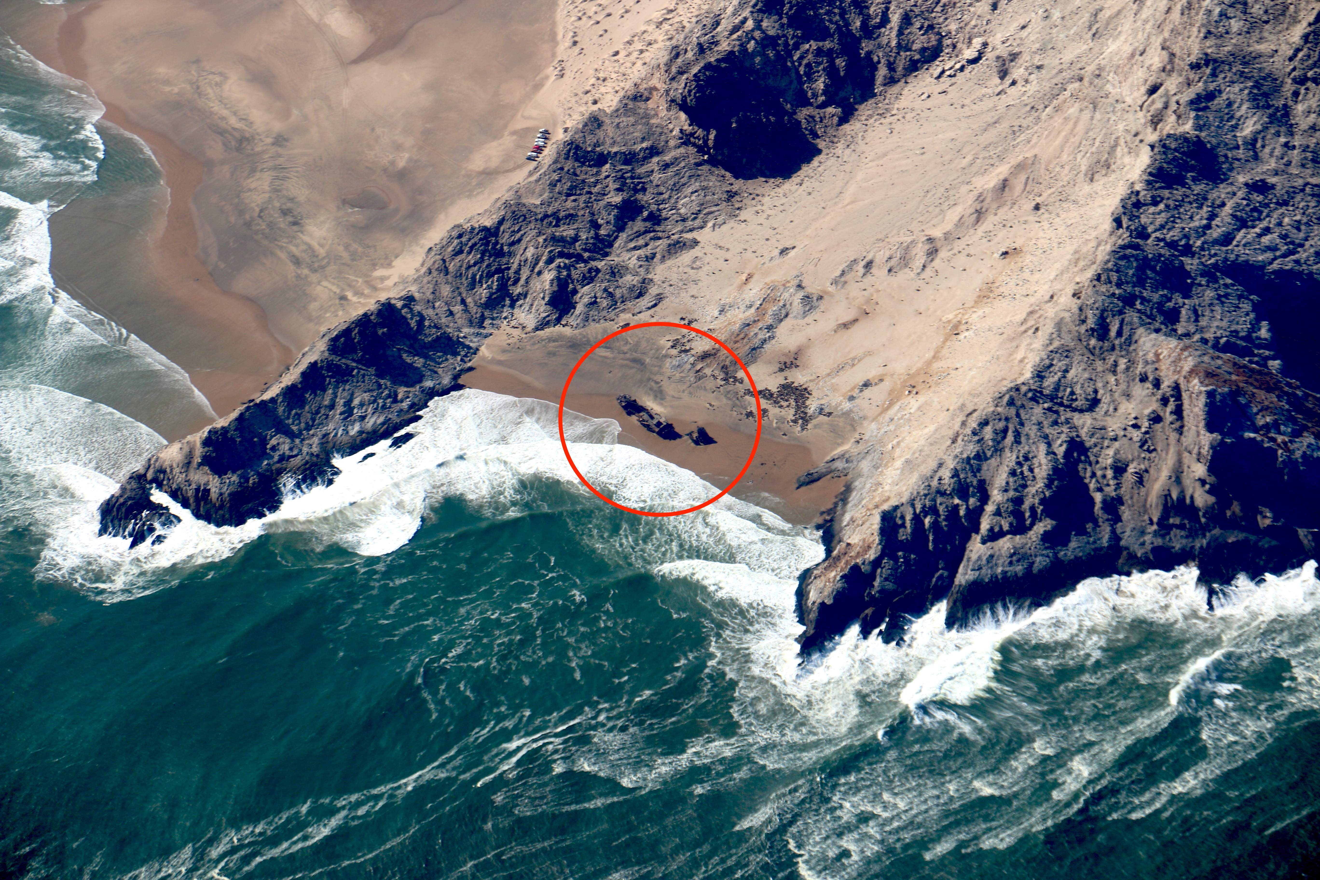 Otavi Ship Wreck